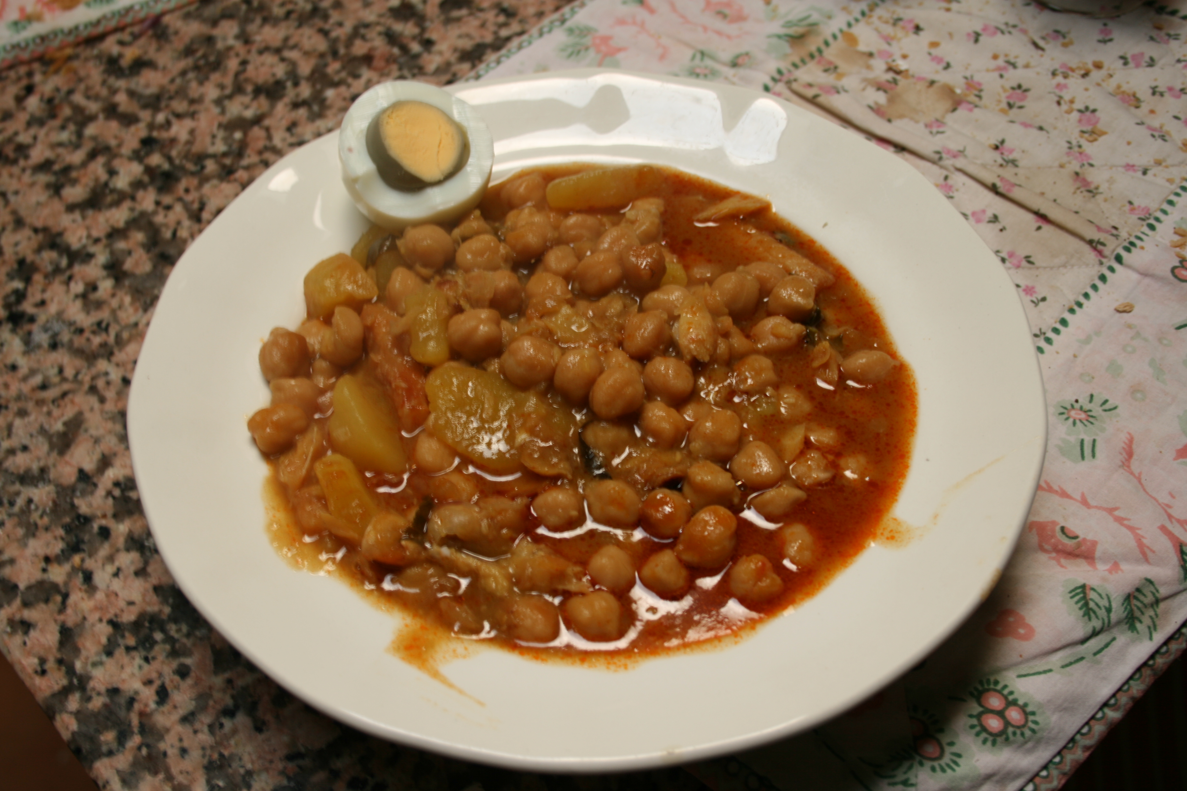 Second Day (Potaje)